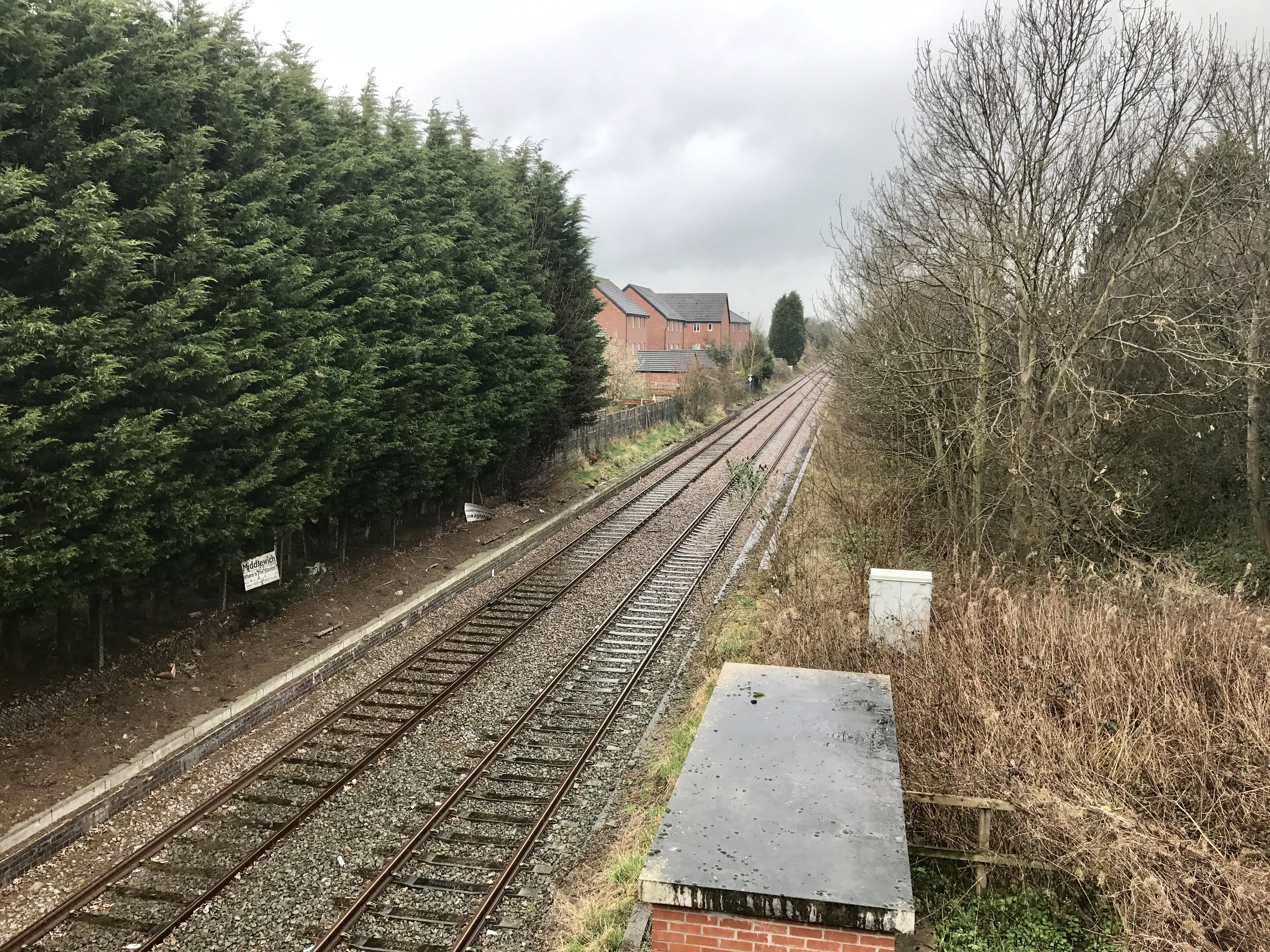 Railway line north of A54 in Middlewich. This is the site of Middlewich railway station, closed to passenger traffic on 4 January 1960. The white signs on the left in front of the conifers read 'Middlewich - Where's the Station?' A campaign to reinstate the station now runs under the auspices of The Mid Cheshire Rail Link Campaign.